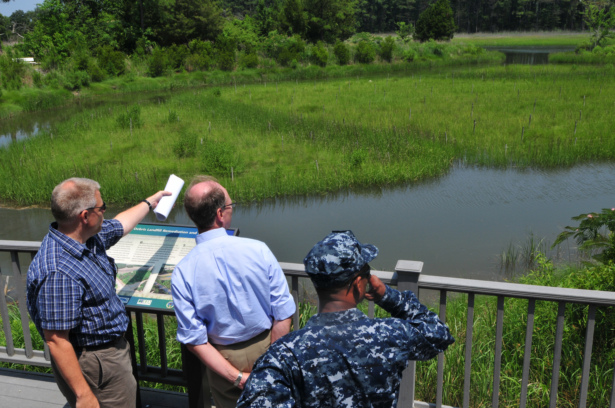 VIRGINIA BEACH, Va. (June 15, 2010) Don Shregardus, deputy assistant Secretary of the Navy (Environmental), is briefed on Environmental Restoration Site 8: Watchable Wildlife Area, at Joint Expeditionary Base Little Creek-Fort Story. Schregardus toured the base to promote environmental and historical protection throughout the Hampton Roads area. (U.S. Navy photo by Mass Communication Specialist 3rd Class Matthew Bookwalter/Released)